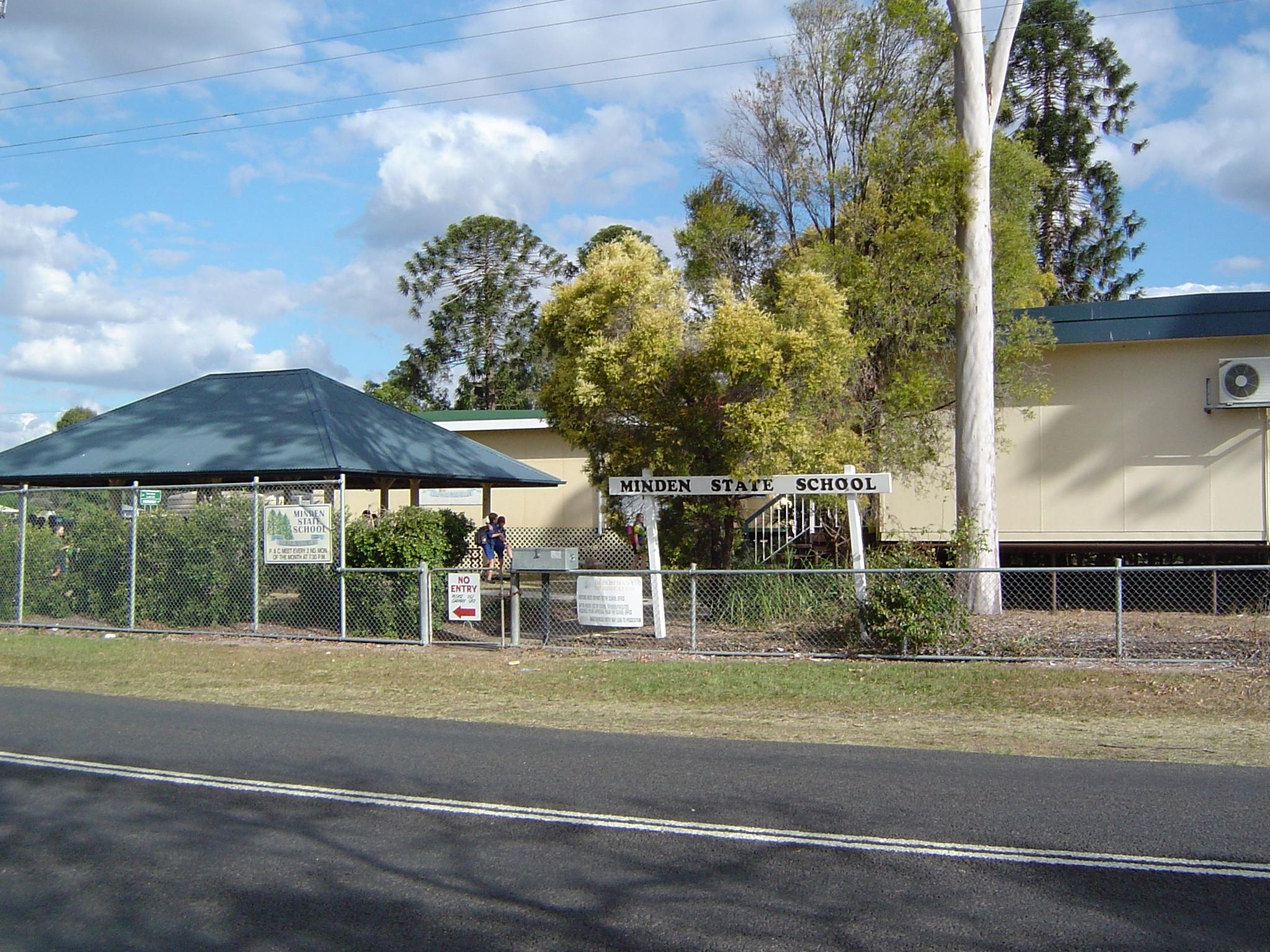 Photo of Minden State School at Minden, Somerset Region, Queensland, Australia.